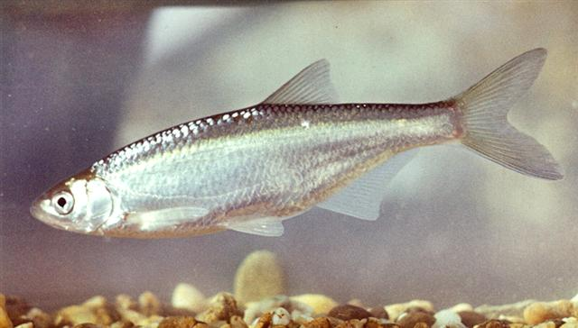 Alburnus alburnus photographed in Tiszafüred, river Tisza, Hungary.